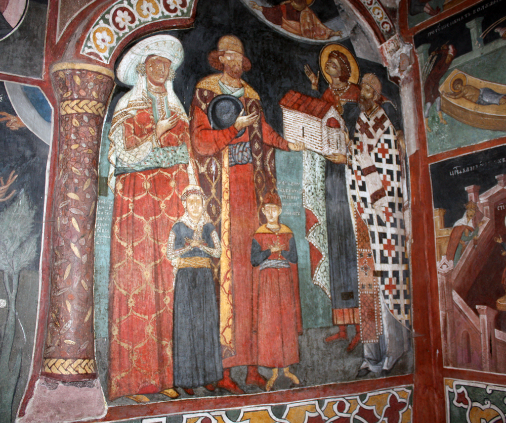 15th century Donors to Kremikovtsi Monatery renovation